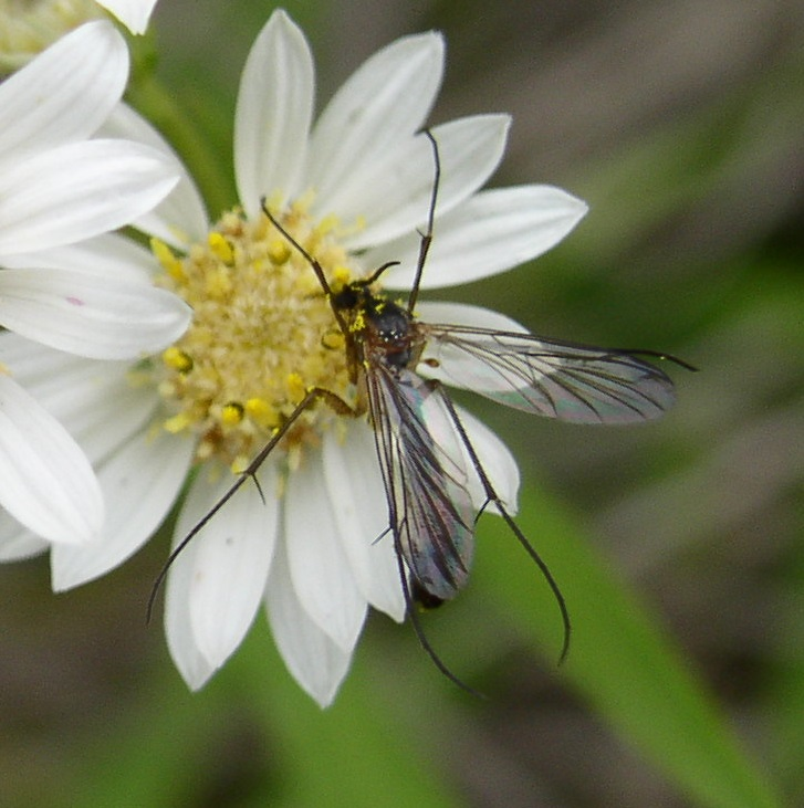 Fungus gnat, Asindulum. Rock Harbor, Isle Royale, Keweenaw County, Michigan, USA.